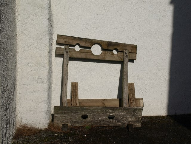 Stocks, Ashburton. These stocks stand against a wall below 1202286.